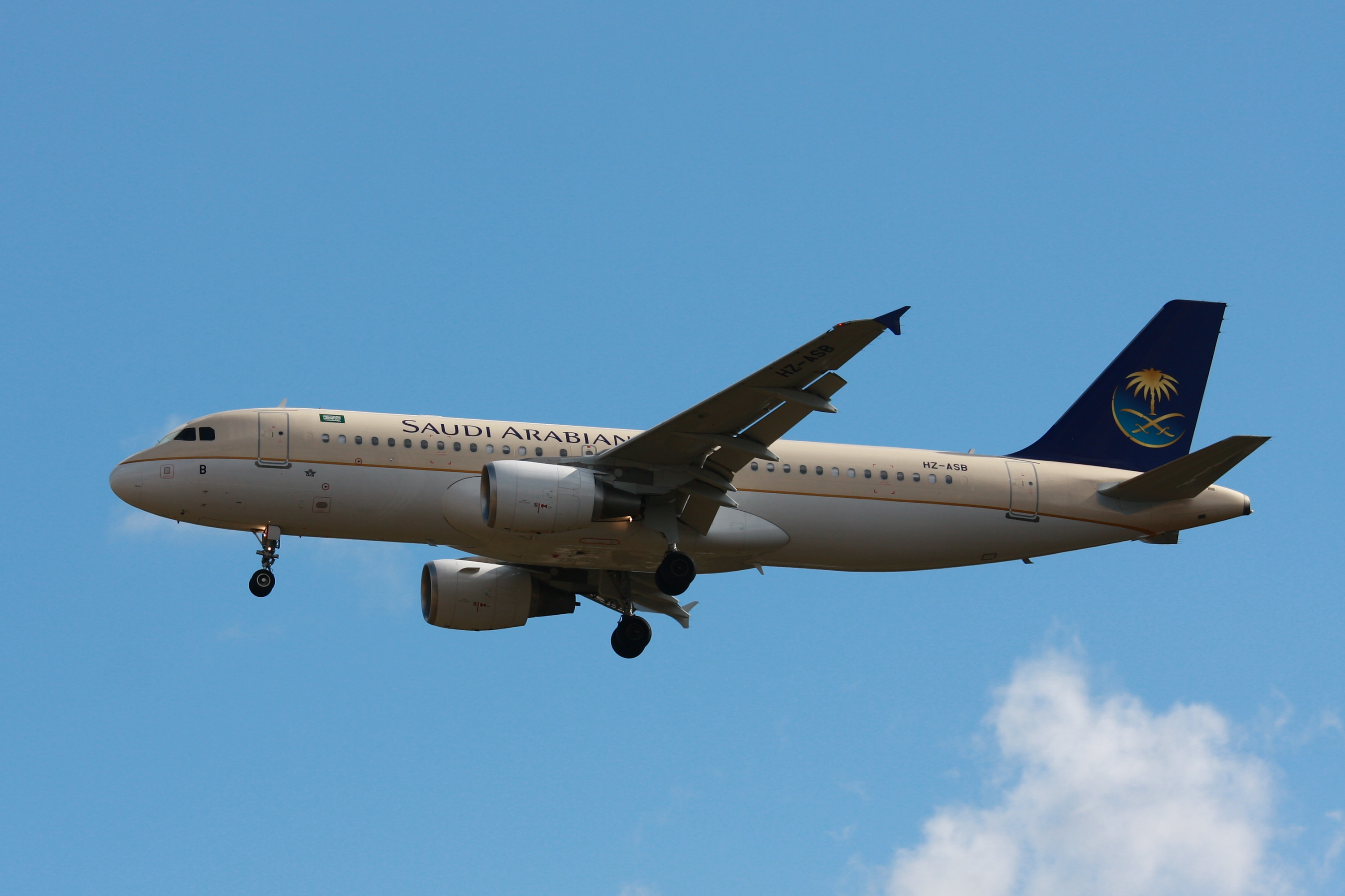 An Airbus A320 of Saudi Arabian Airlines landing at Frankfurt Airport